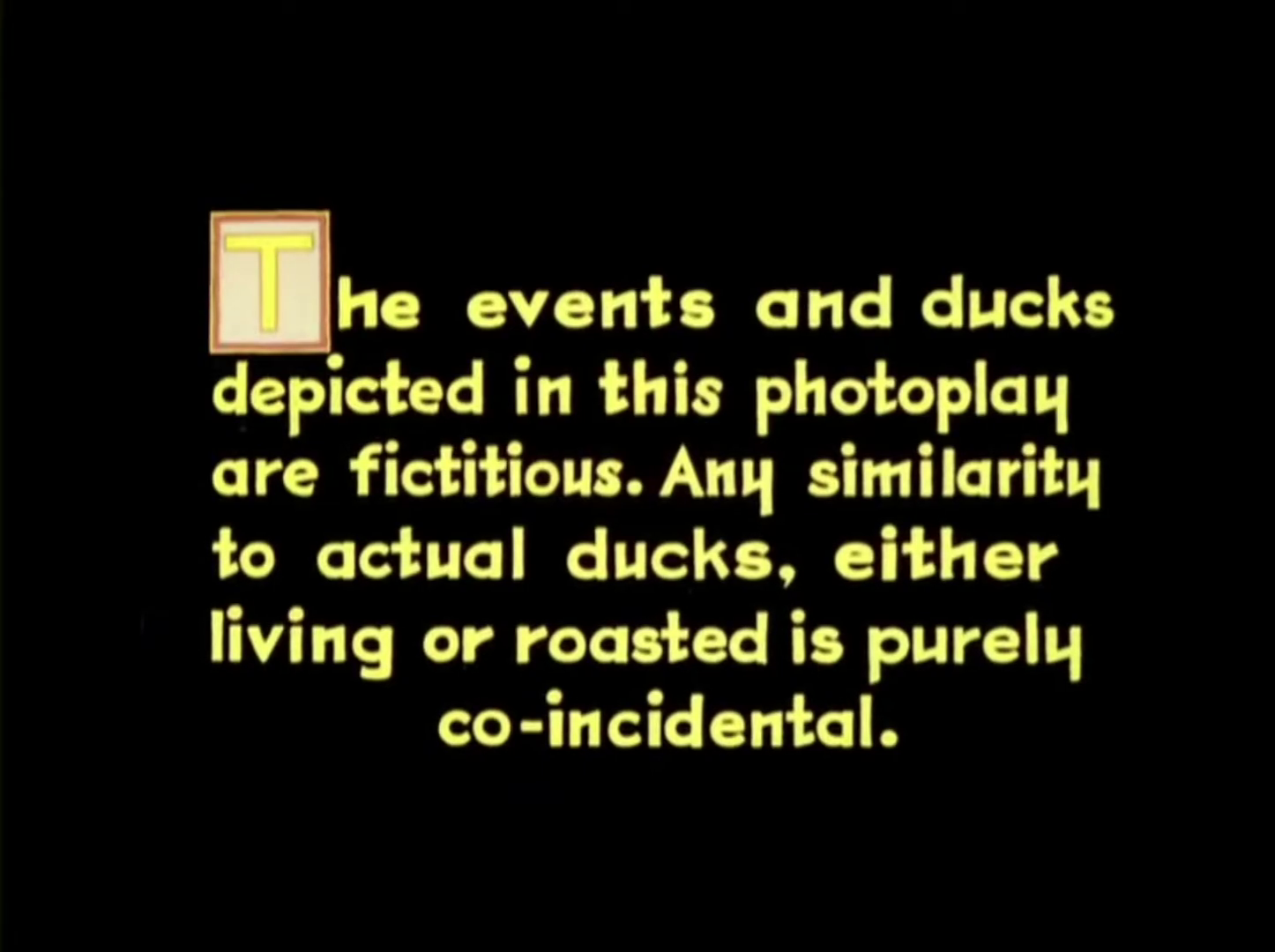 A director's note from the Warner Bros. Merrie Melodies cartoon short "Daffy Duck and Egghead."